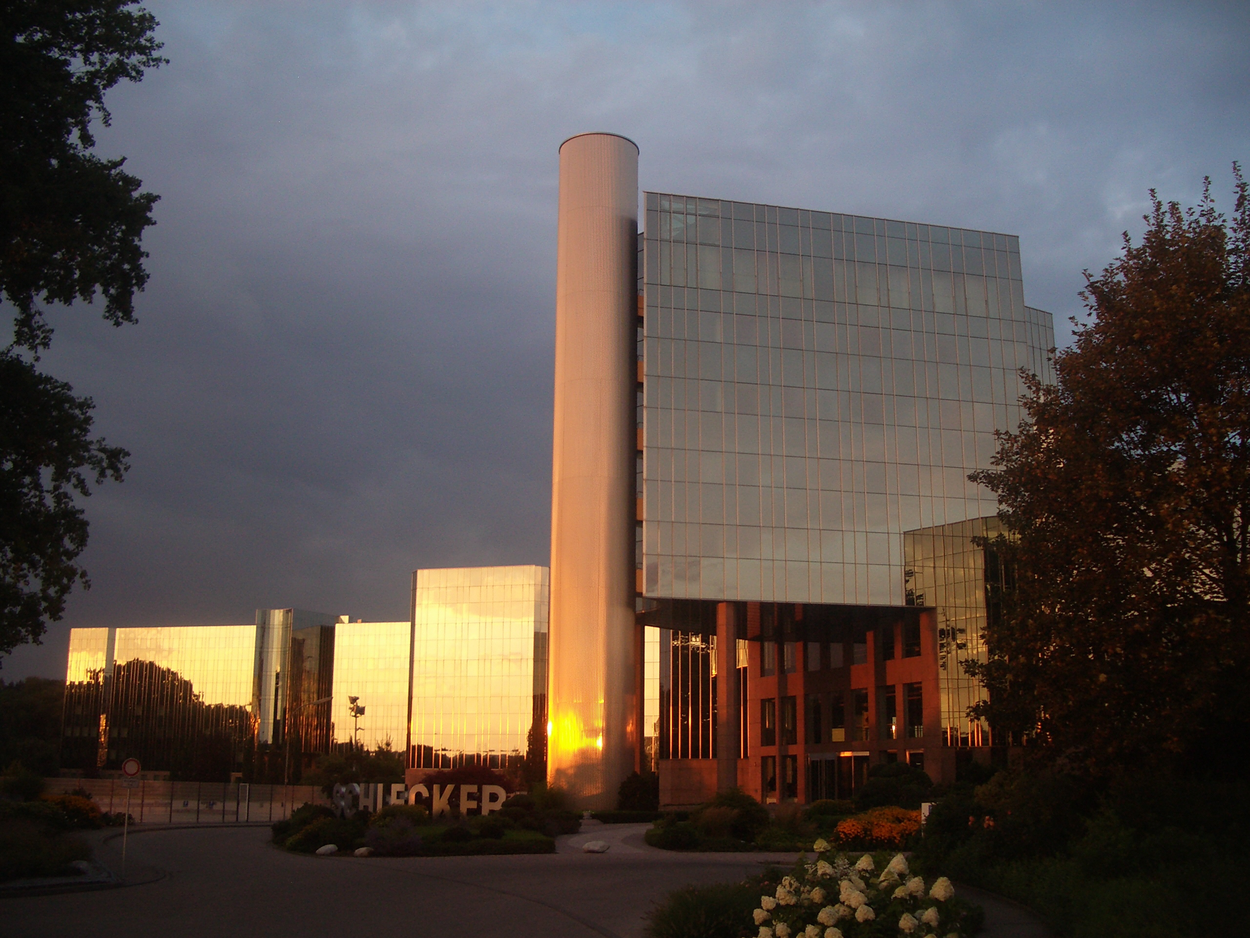 Headquarters of Schlecker in Ehingen, Alb-Donau-Kreis, Germany.